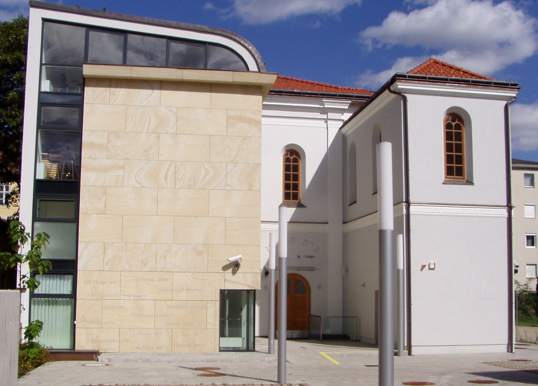 The synagougue in Baden (Austria) in 2006